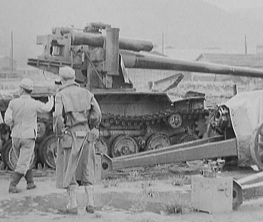 IJN Naval 12 cm SPG being demonstrated to US Army personnel at Yokosuka base, post-war.